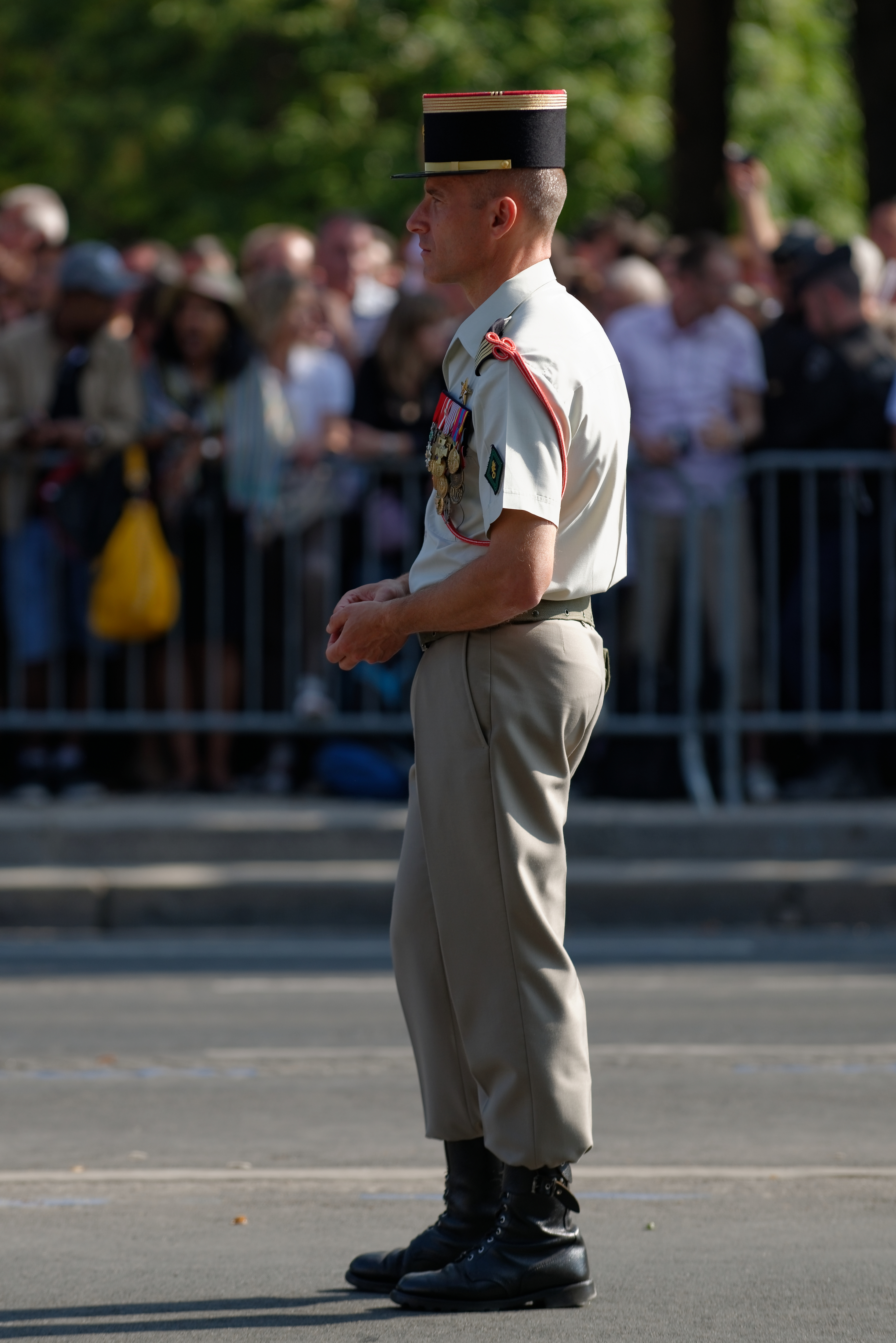 Colonel Daniel Bonini, commanding the 2nd Foreign Engineer Regiment, before the Bastille Day 2013 military parade on the Champs-Élysées in Paris.